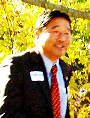 Jan C. Ting